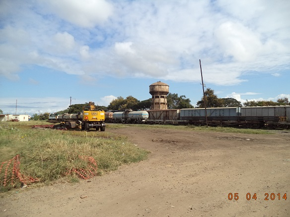 Train in the village of Cuamba, Niassa province, Mozambique